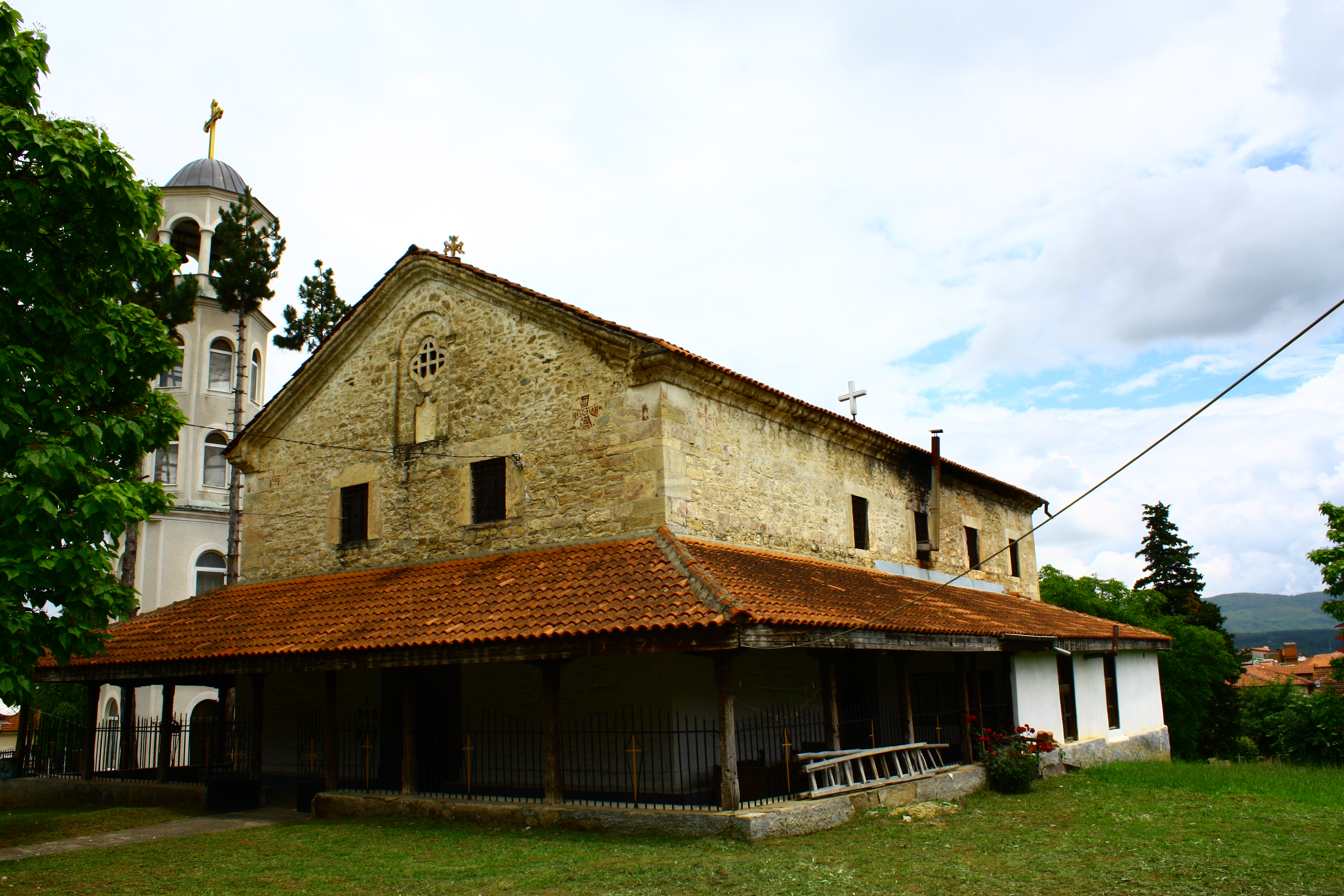 St. George Church in Resen, Macedonia